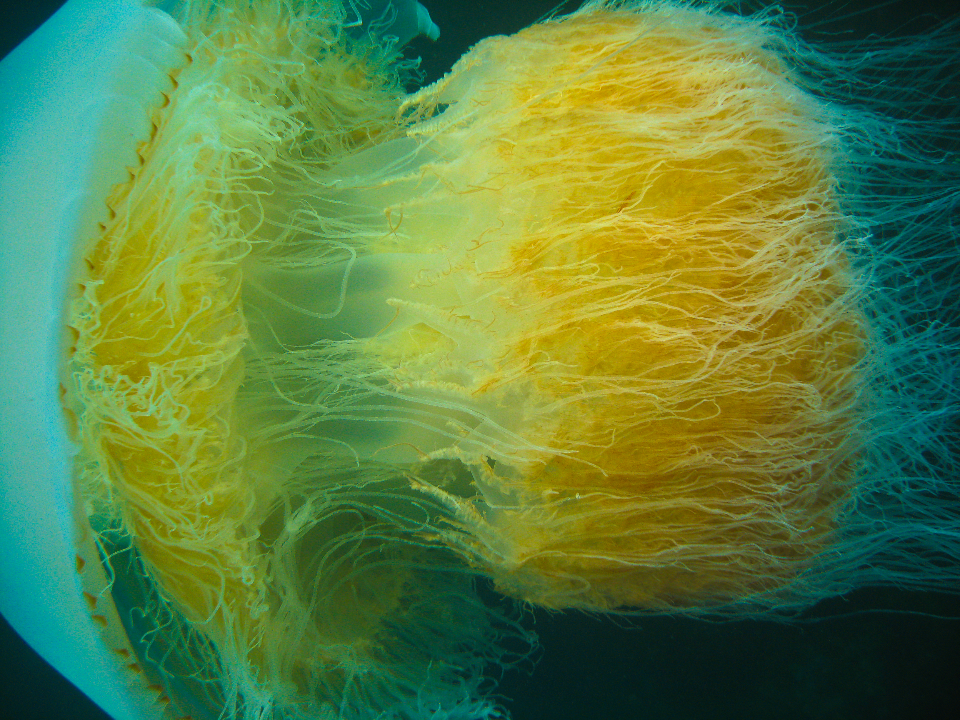 Nomura's jellyfish in Little Munsom island, Jeju-do, South Korea. This one got a bit cropped as I was dodging the stinging tentacles, so I'm not 100% happy with it. But I like the detail so decided it was worth uploading.